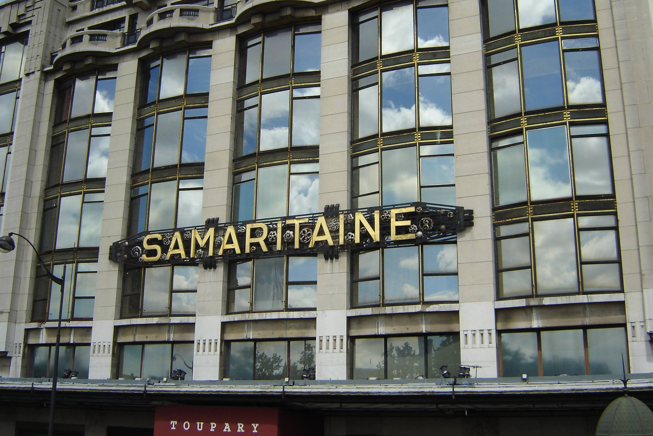 La Samarataine sign, taken from top deck of double decker bus as it was passing. Taken from top deck of double decker bus.